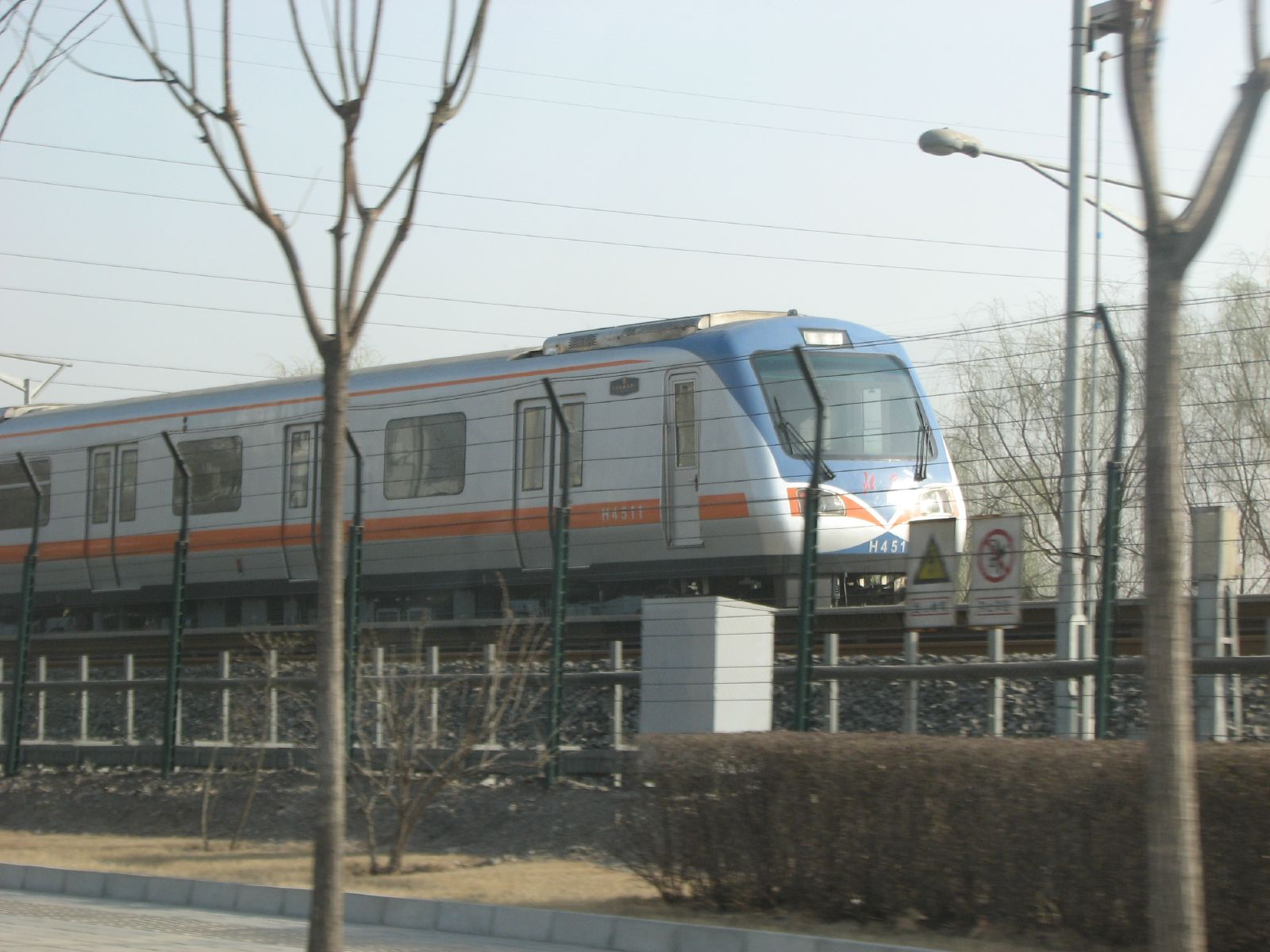 Line 13, Beijing Subway